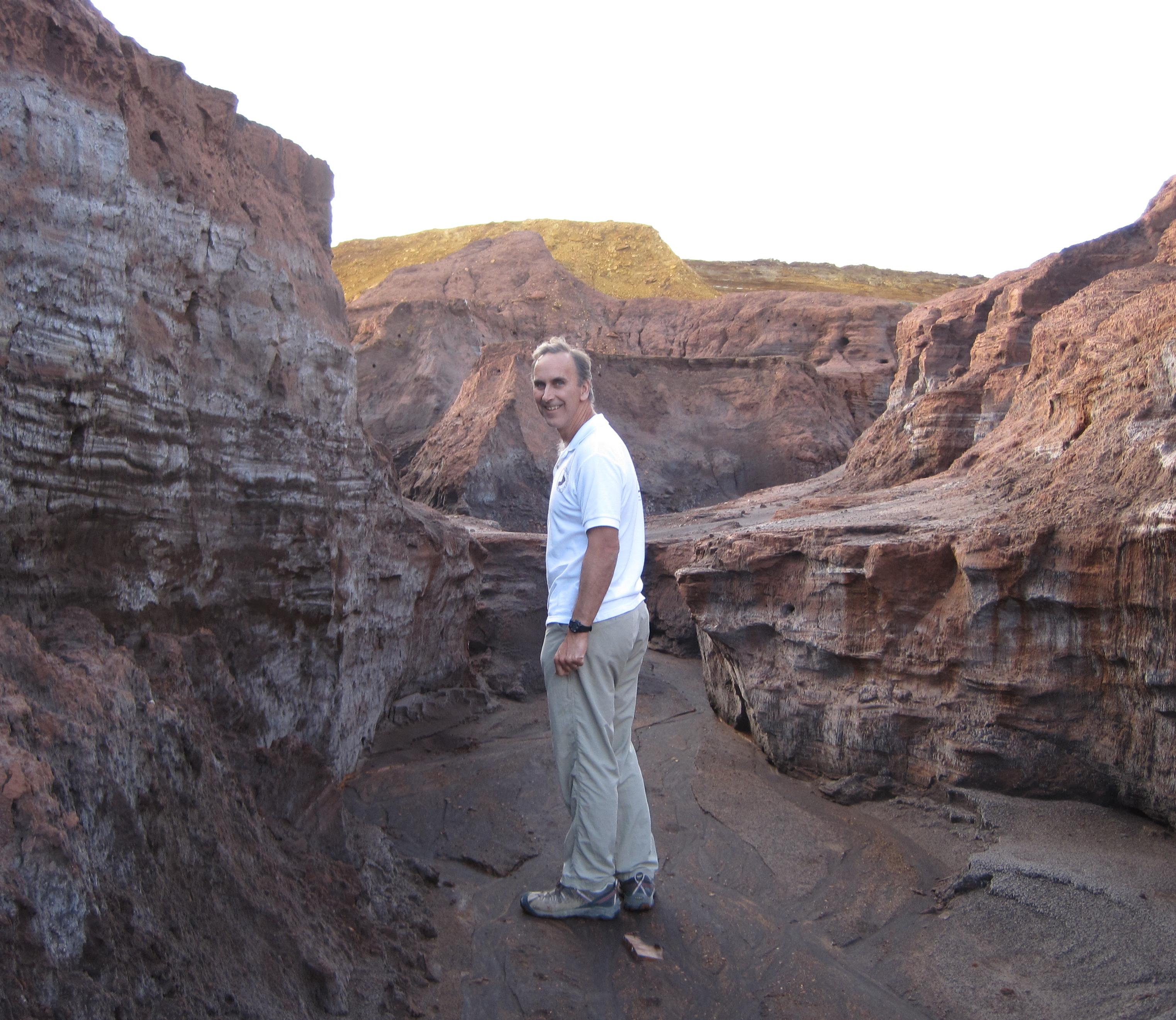 Picture of John P. Grotzinger